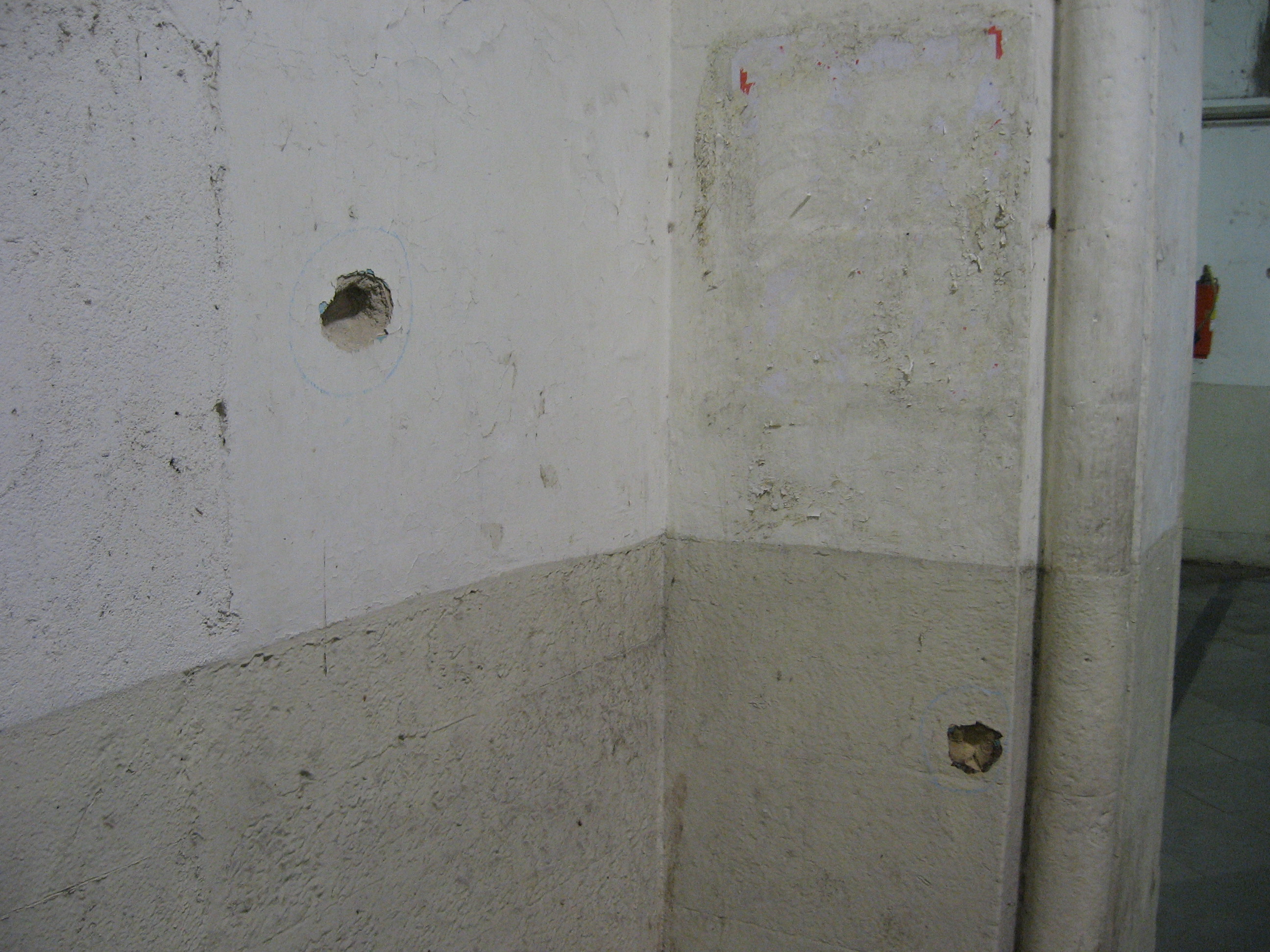 Bullet marks on the wall of the VT suburban railway station, site of the November 2008 Mumbai attacks